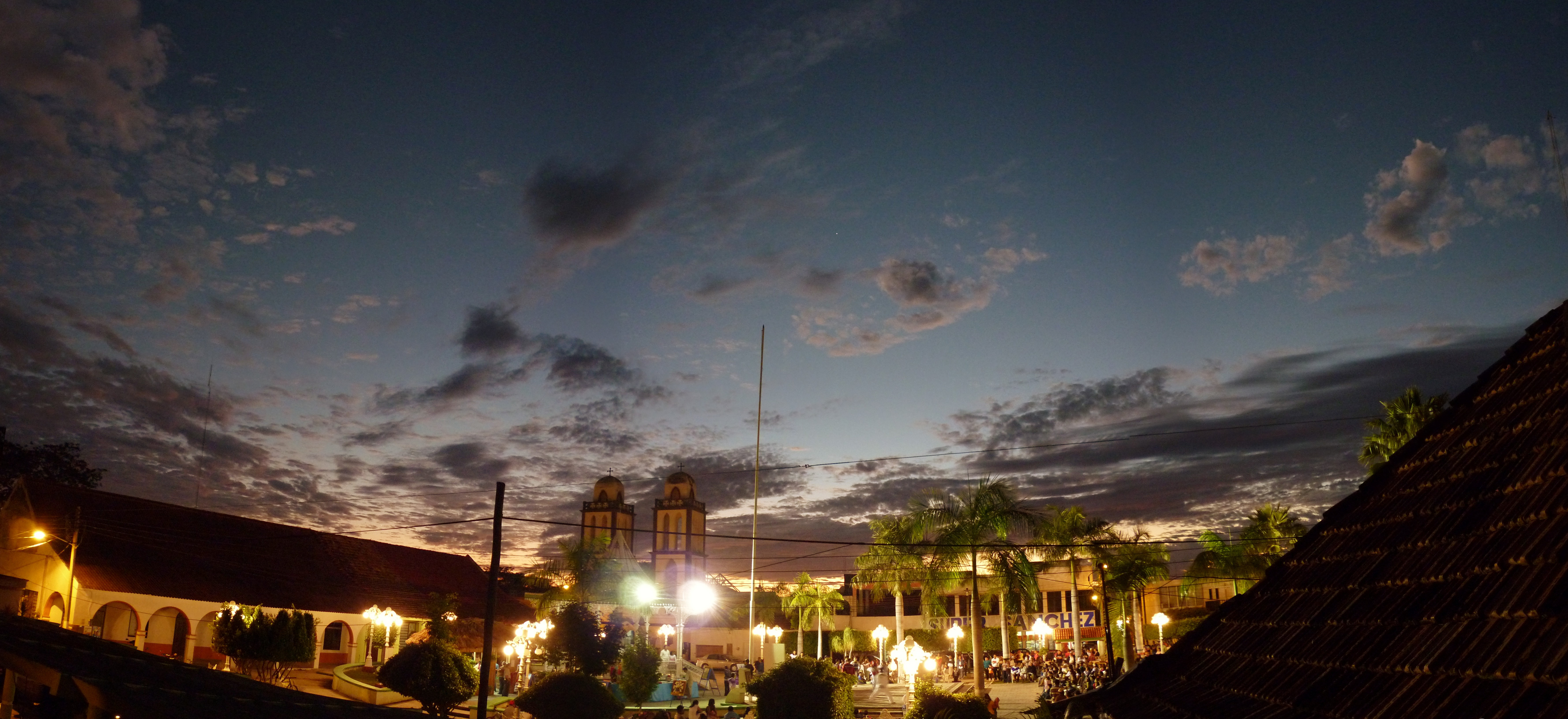 Meeting space and rest of the locals, packed with walkers and gardens with ornamental plants, benches, lamps and a central kiosk. Central square of Balancán, Taabsco, Mexico. The park marks the central area of this city of the Usumacinta river and are located around important buildings including City Hall, the house of culture, the Archaeological Museum Dr. José Gómez Panaco, the temple of San Marcos and old houses with their typical corridor and a gabled roof tile French.